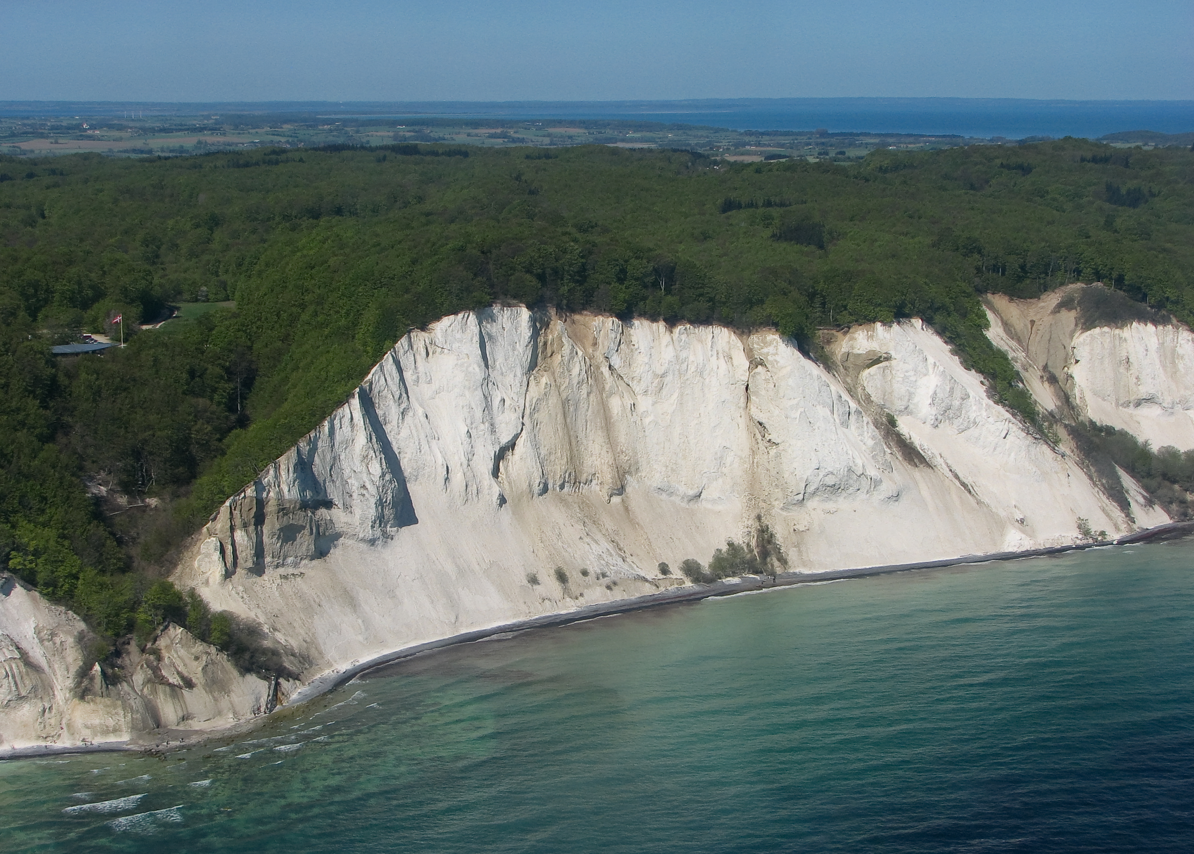 Dronningestolen ("The Queen's Chair"), with its 128 metres the tallest point of Møns Klint in Denmark.